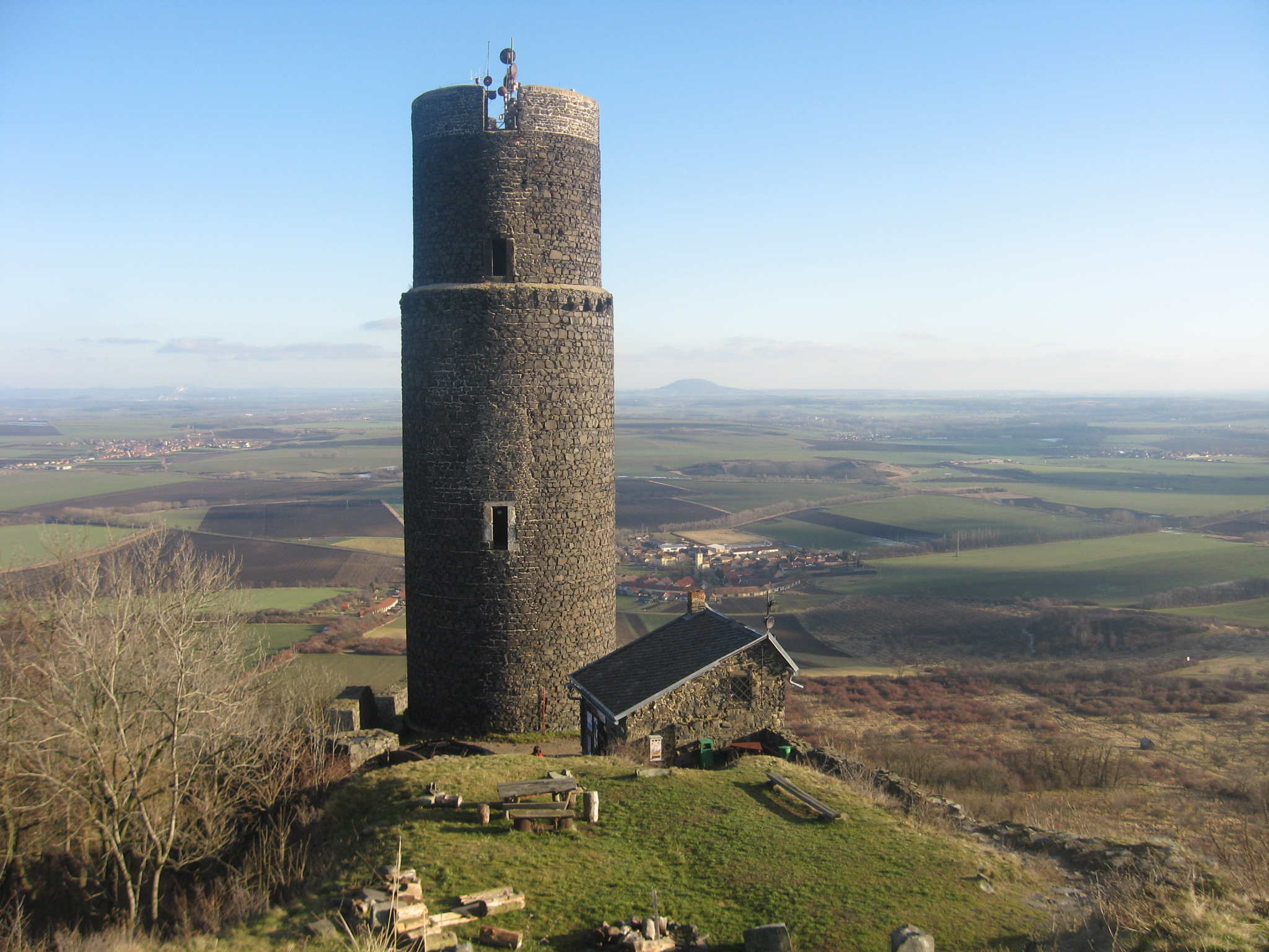 Hazmburk Castle - Black Tower